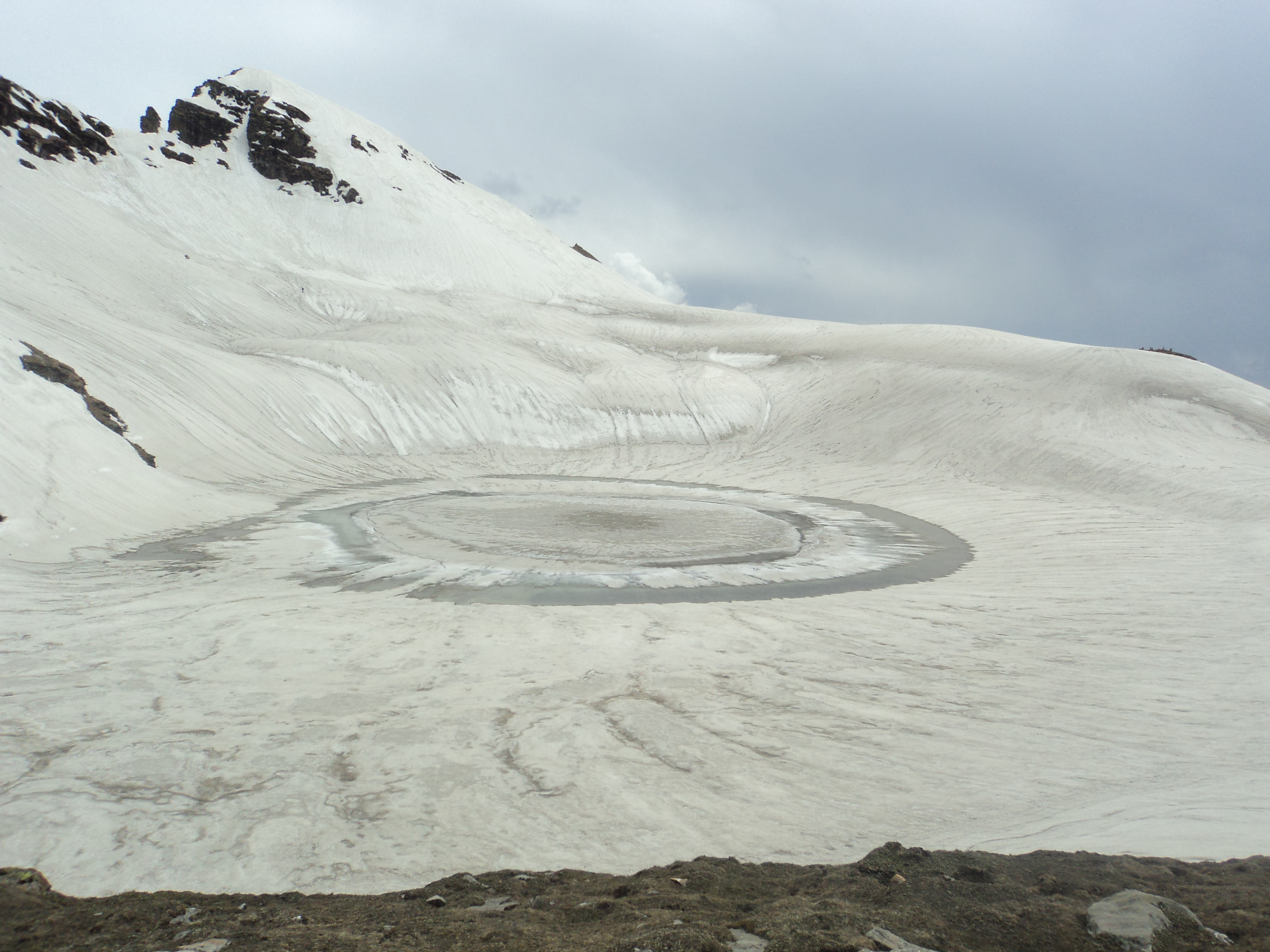 This is Bhrigu lake situated at approx. 14,500 feet located in the Himalayas